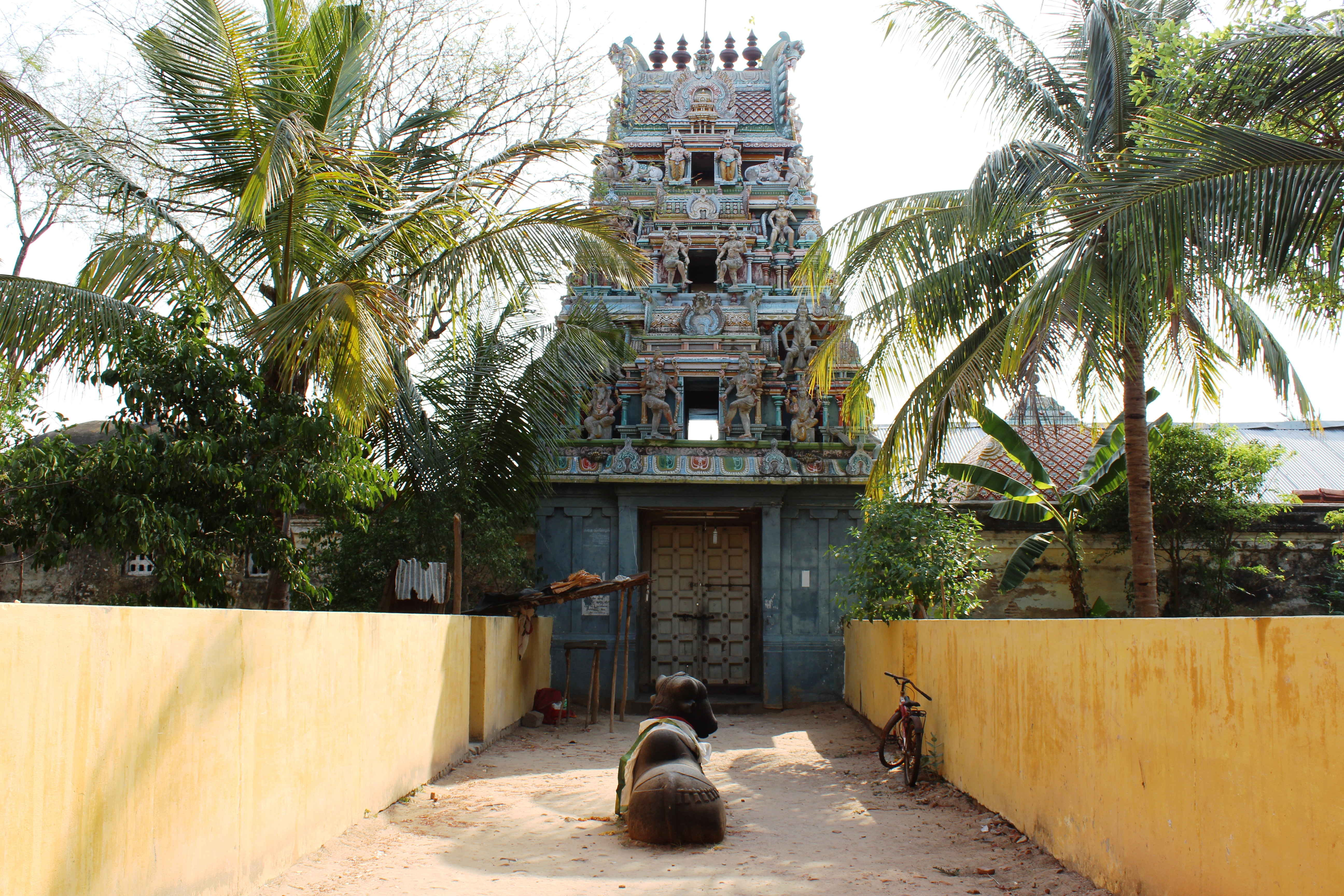 Palvananathar